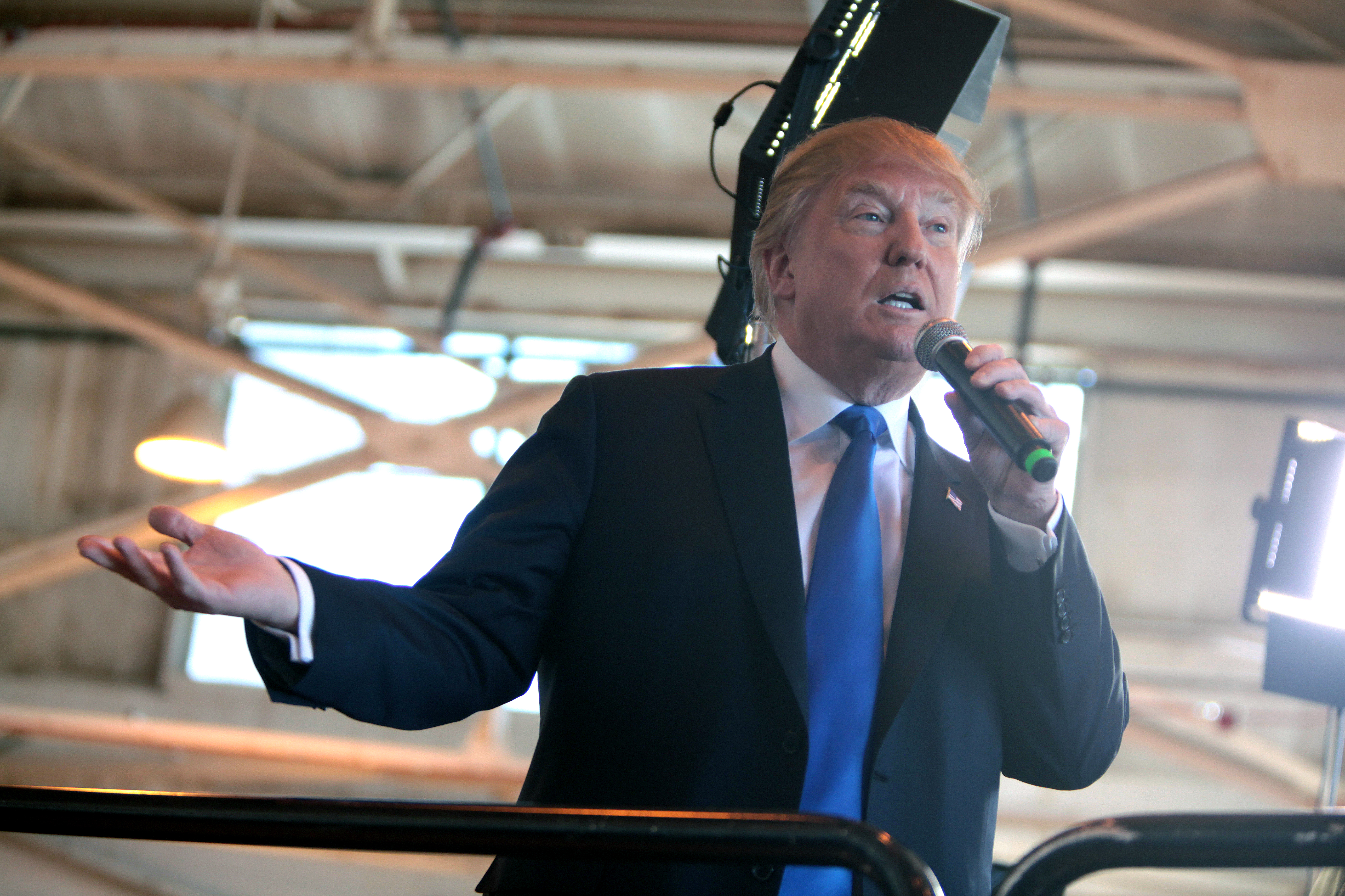 Donald Trump speaking with supporters at a hangar at Mesa Gateway Airport in Mesa, Arizona.